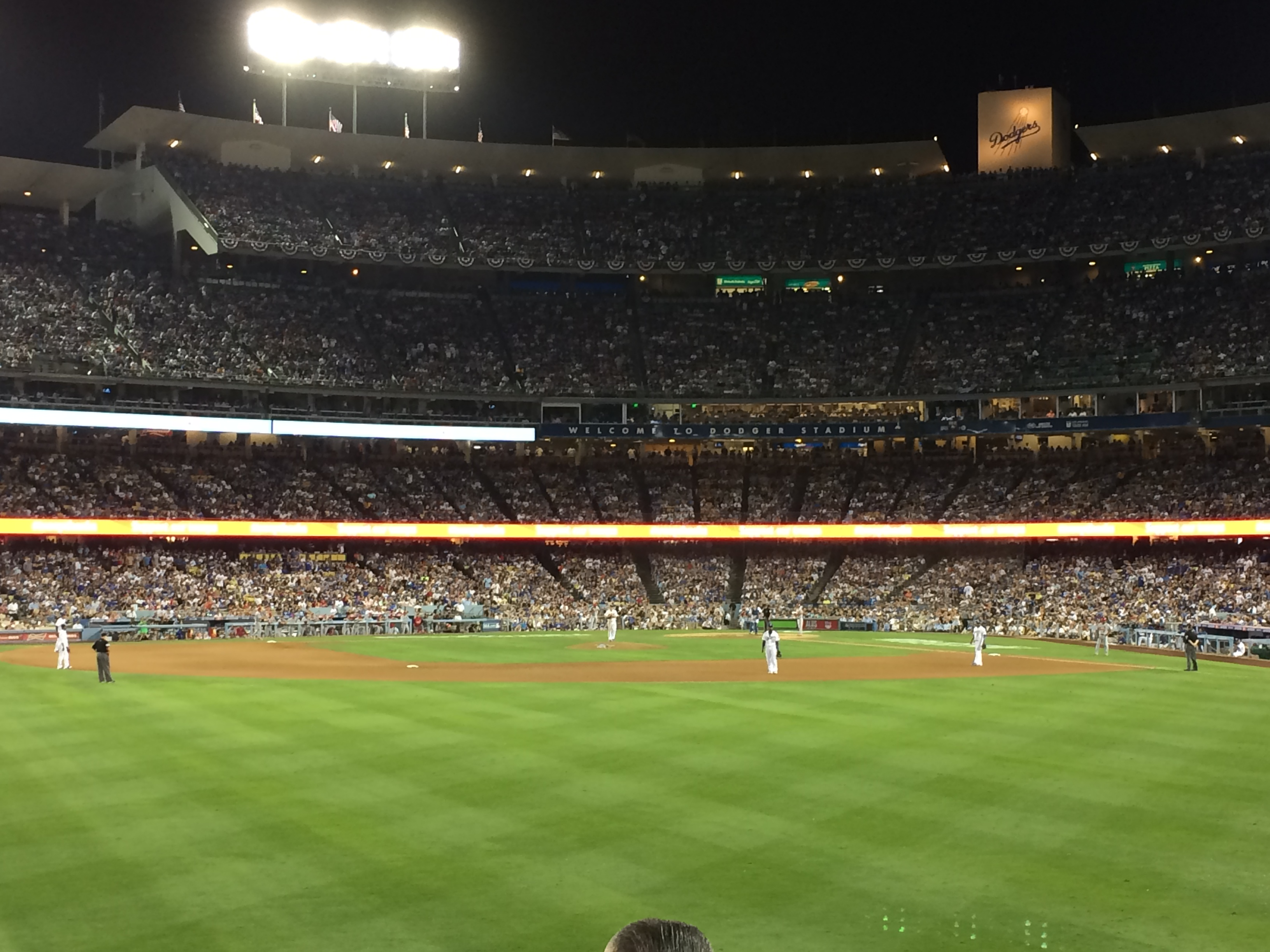 NLDS Game 2 Cardinals at Dodgers, view from center field